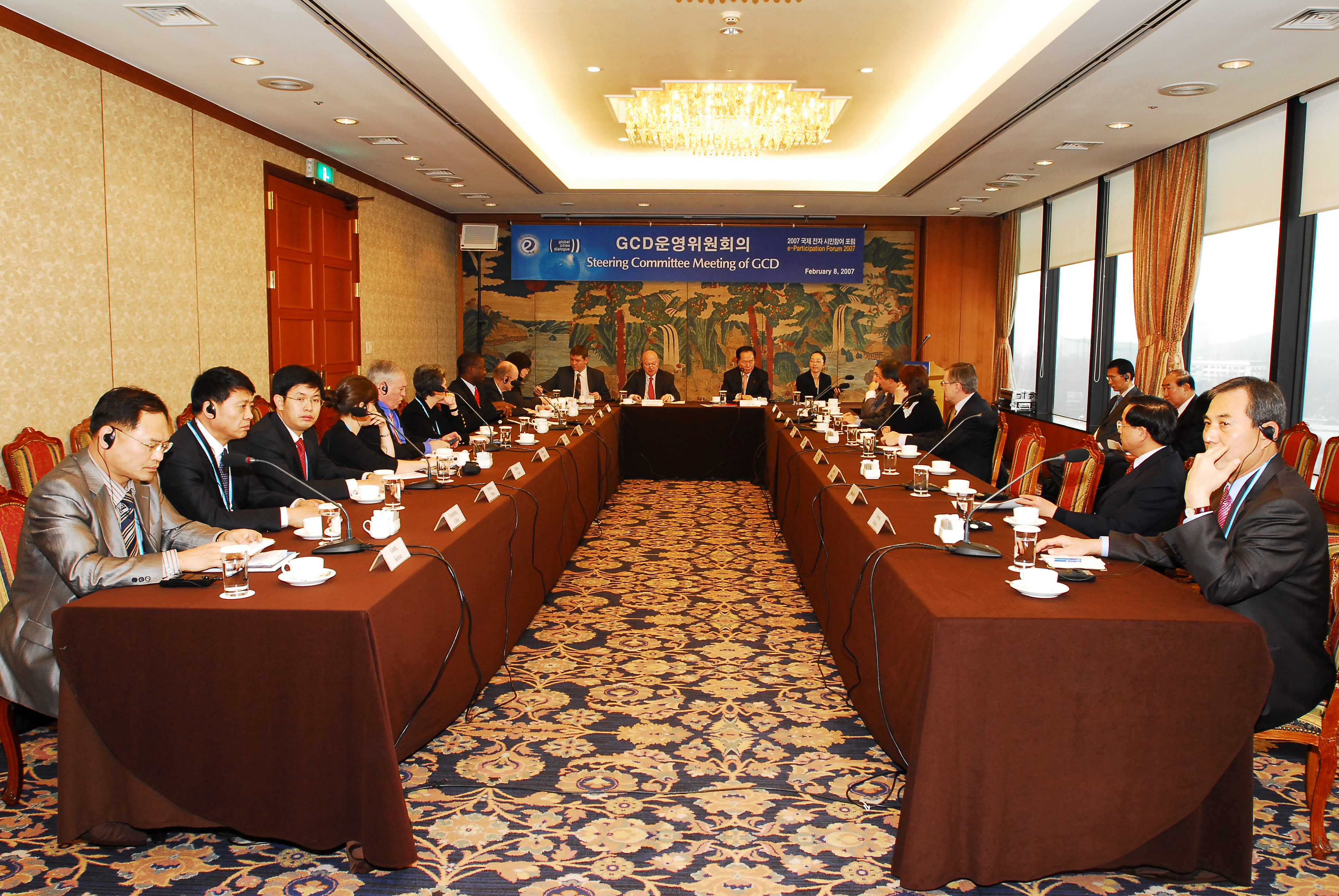 Gcd